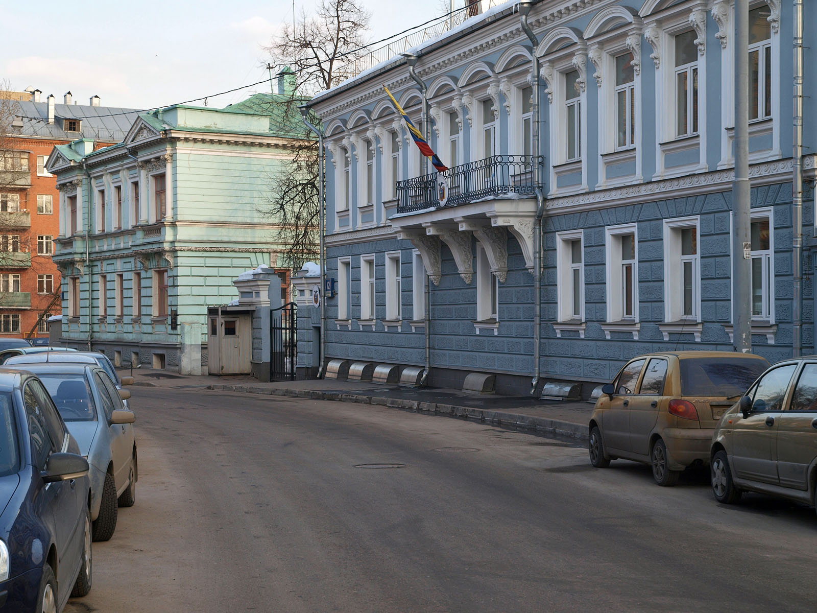 Embassy of Equador in Moscow